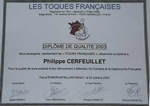 A diploma of the 'Toques françaises', a French association of chefs.